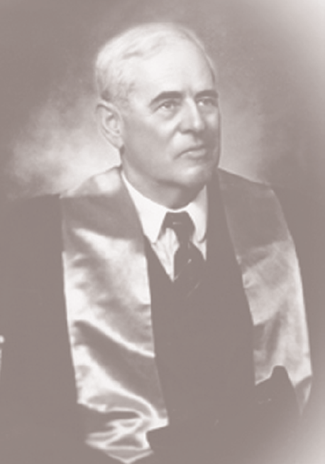 Photo of the potrait of Errol Solomon Meyers